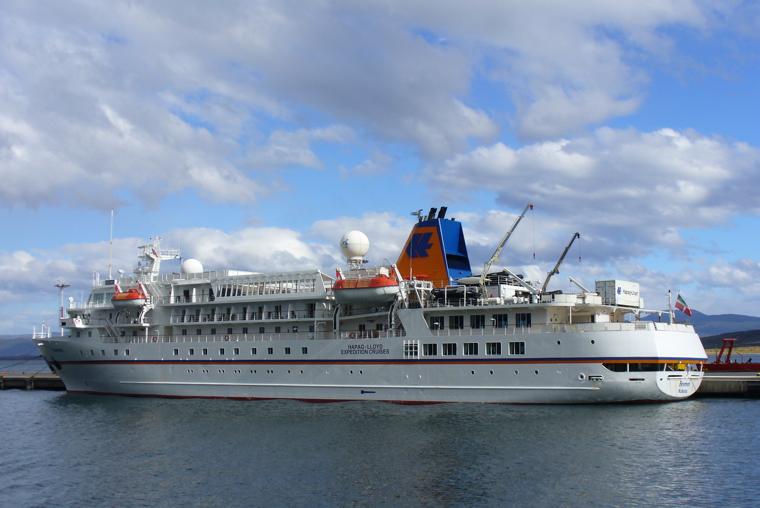 MS Bremen in the harbour of Ushuaia (Province Tierra del Fuego), Argentina.